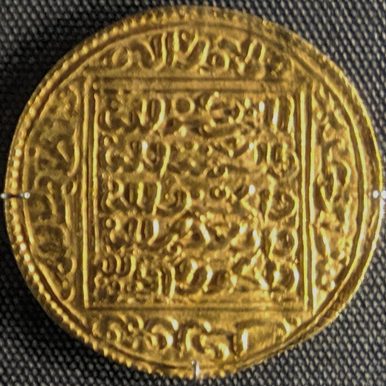 Gold dinar of Abu’l-Hasan ‘Ali ibn ‘Uthman, (731-752 H/1331-1351 AD). made in Tunis c. 748-749 H (1347-1348 AD). Photograph taken by me in the David Museum. More information about this coin